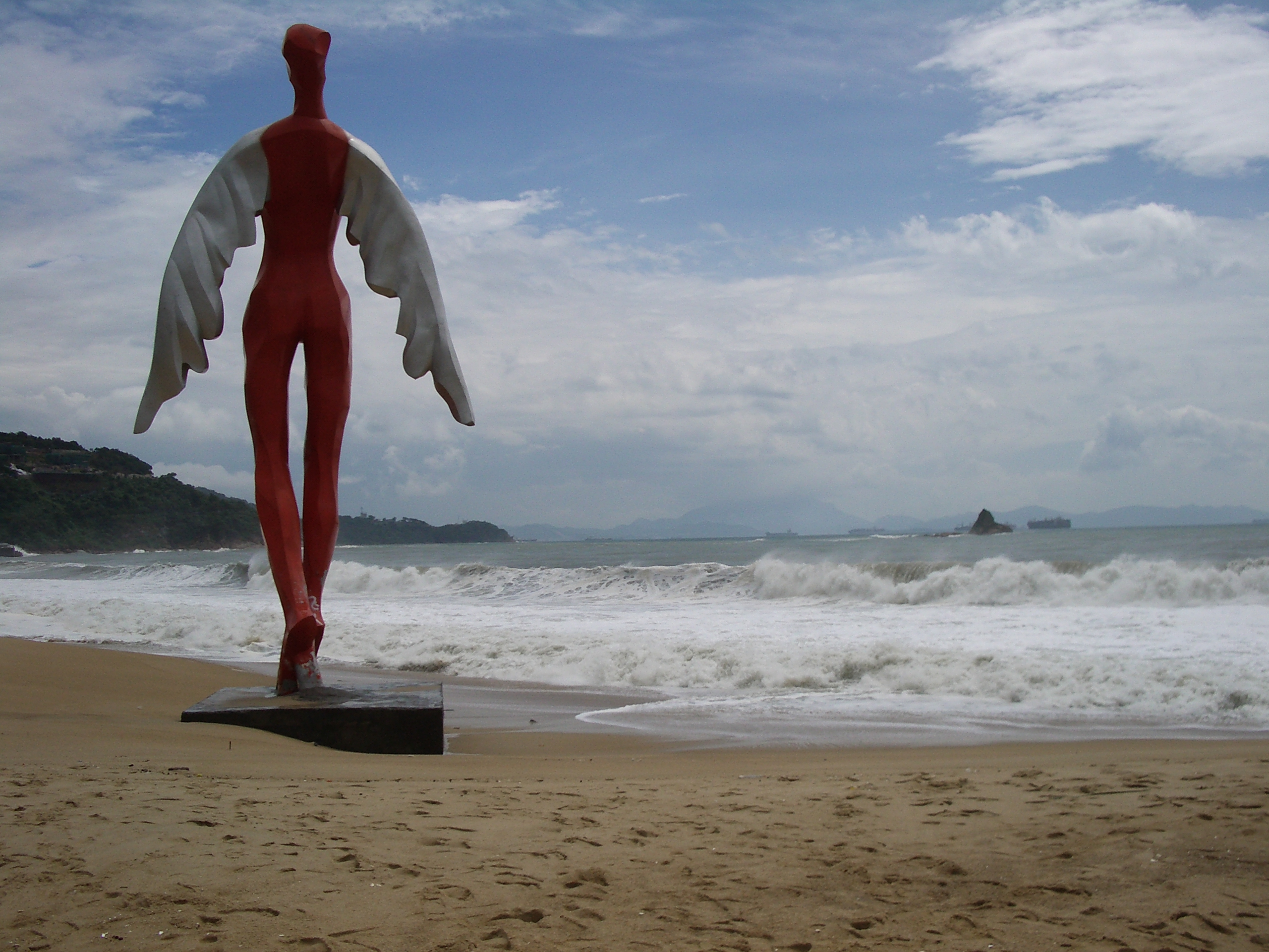 深圳大梅沙。 --Jack Chui 12:31:55 2005年11月9日 (UTC)